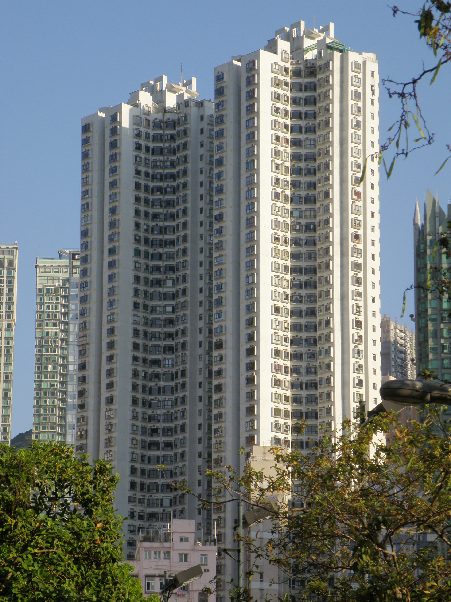 Illumination Terrace in Tai Hang, Hong Kong.